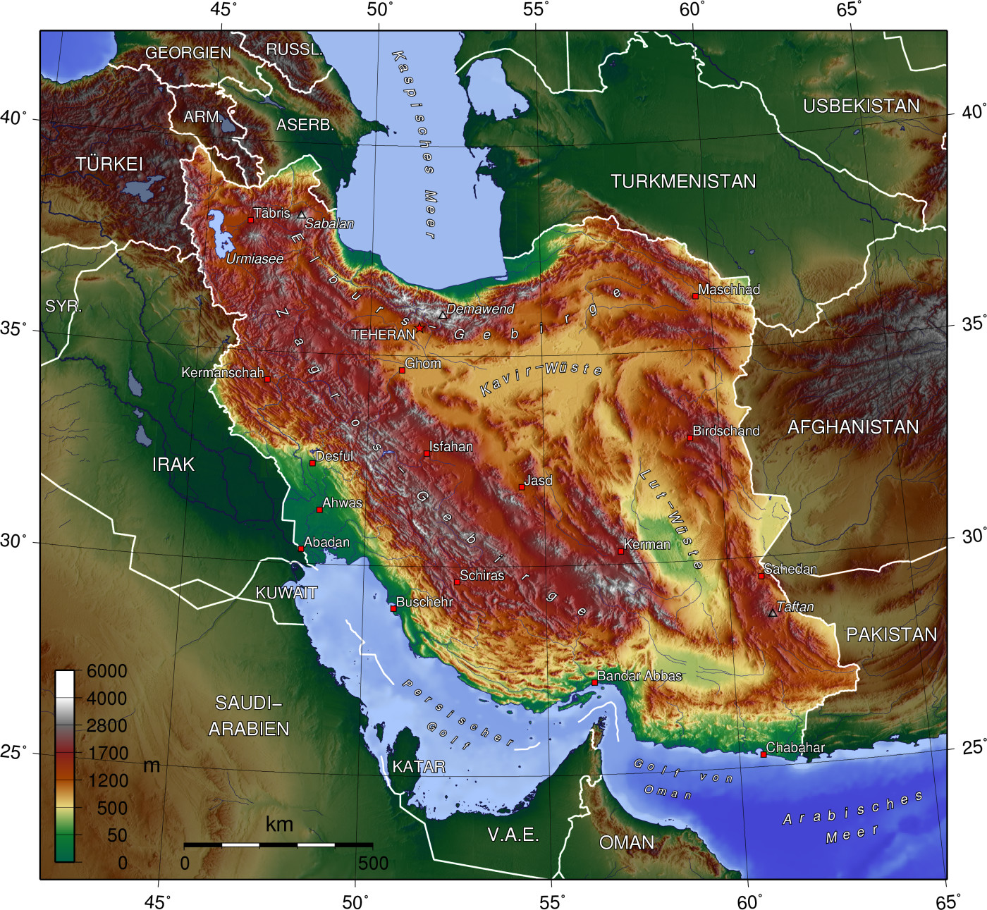 Topographic map of Iran